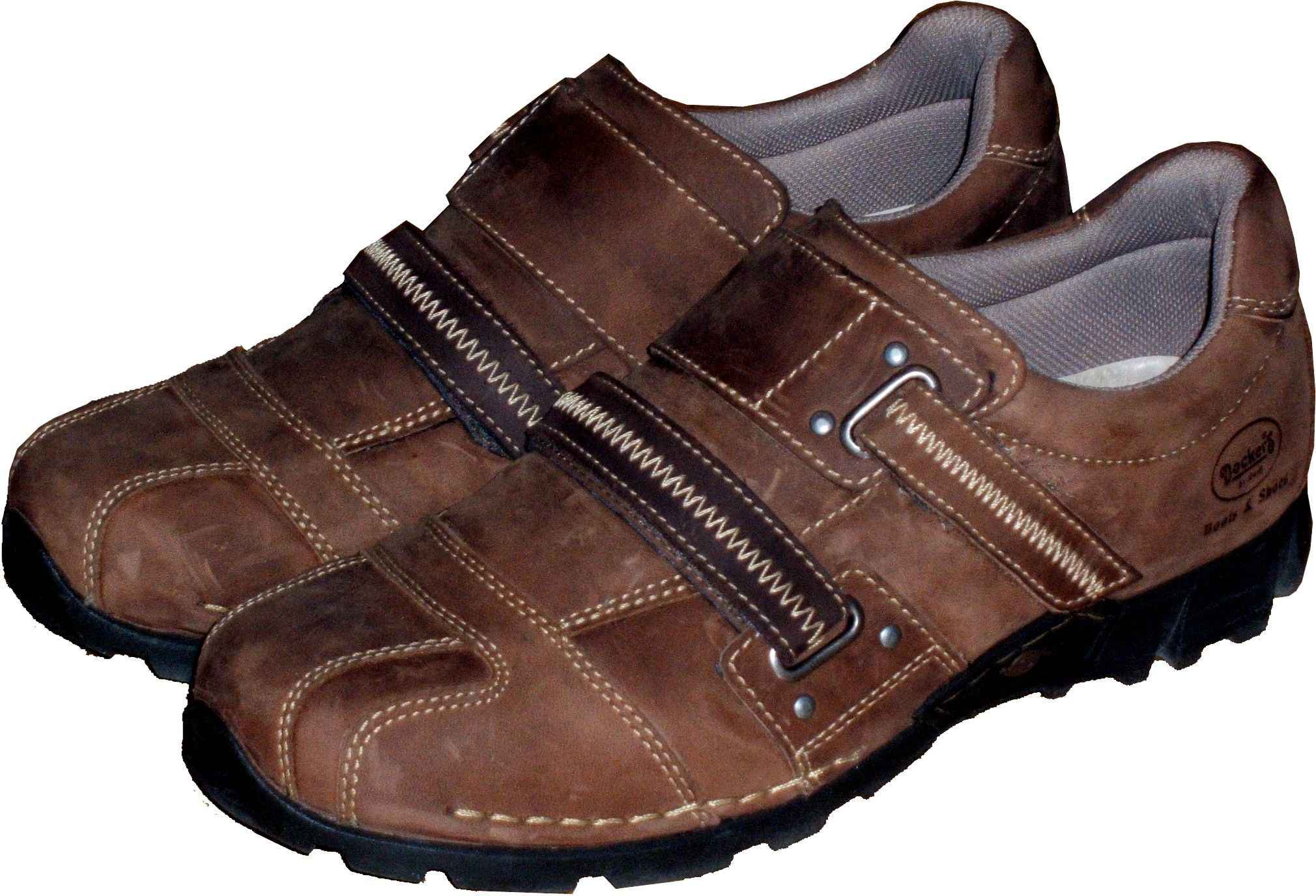 leather shoes